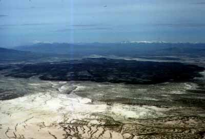 Aerial view of Fumarole Butte, with the snow-capped Oquirrh Range in the background.(The view is ENE, towards Nephi, Utah, 55-mi east. The mountains at photo-right are the (north)-Canyon Mountains.The snow capped mountains-(55-mi) are the Wasatch Range, and San Pitch Mountains to south.Photo-left are the south ends of the West Tintic Mountains and East Tintic Mountains-(DeLorme Atlas, Utah).(The black region east of the fumarole, is the NE Sevier Desert, and Little Sahara Recreation Area, west of Jericho, Utah.)(may be a cloud shadow as well; the white is sand/ or deposits)